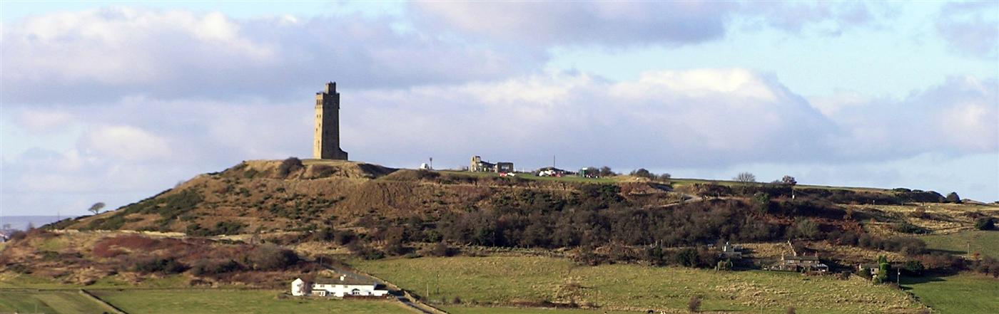 View of Castle Hill, Huddersfield. From Farnley Tyas. Taken whilst the old Public house was being demolished to build a new one(class A listed building).the newer Public house was also demolished for failing to comply to planning permission. The new public house was oversized from the dimensions specified on building permeission plans and the owners were given a week to demolish the building by the council, or else the council would demolish the building for them and the owners would then get charged for the demolition. The old public house is now part of the car park!